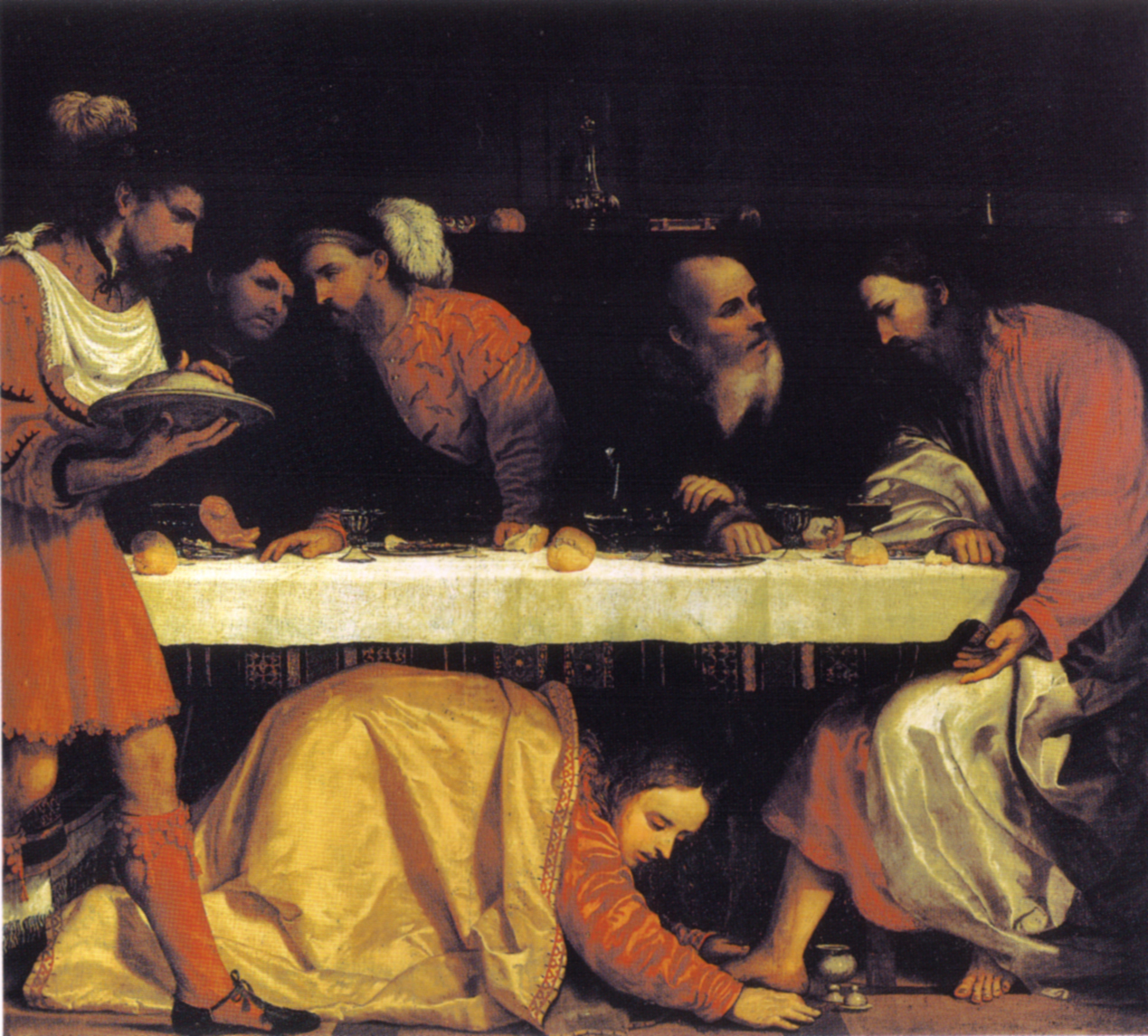 Mary Magdalene washing the feet of Jesus